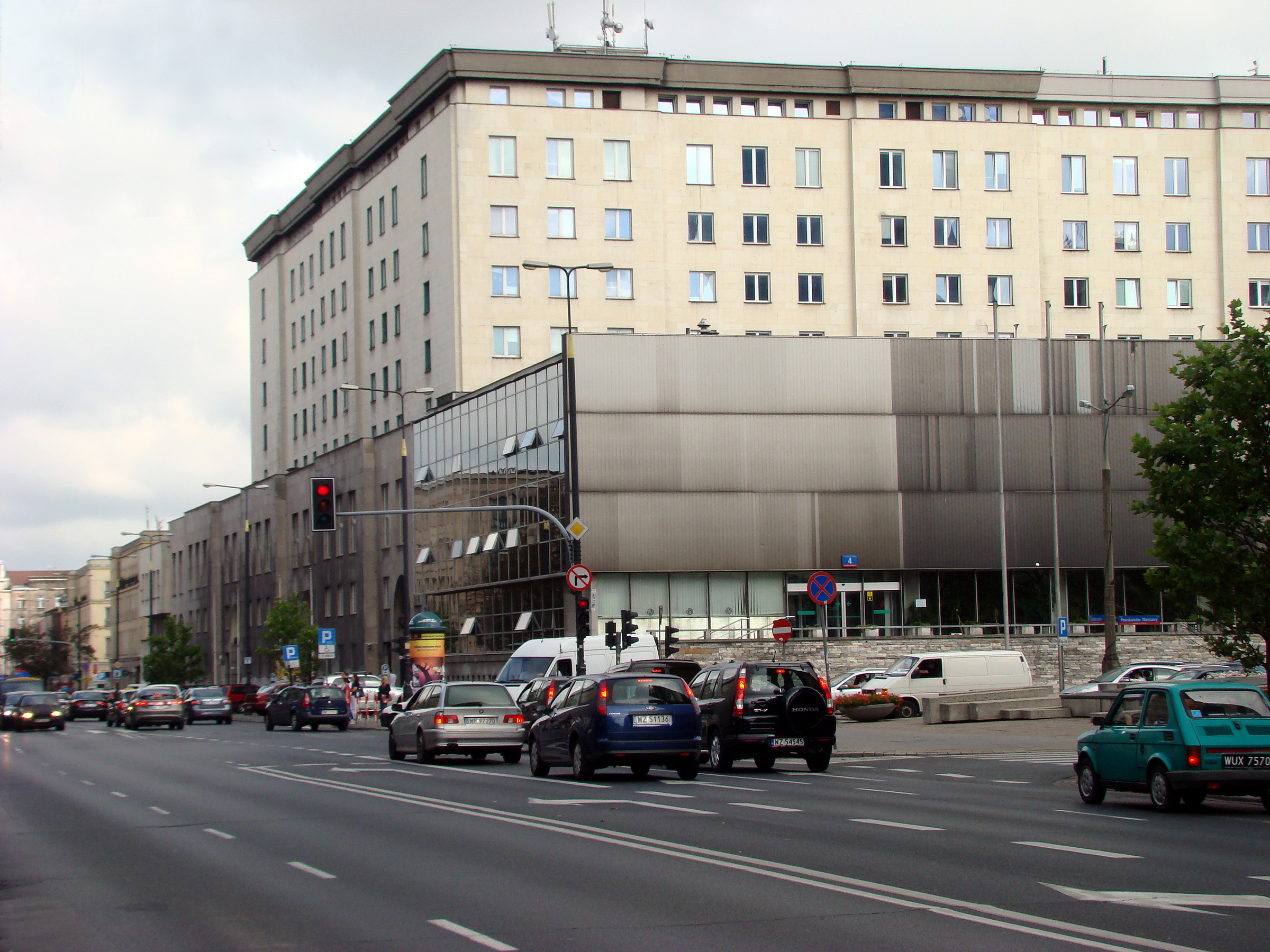 National Bank of Poland, architect Bohdan Pniewski